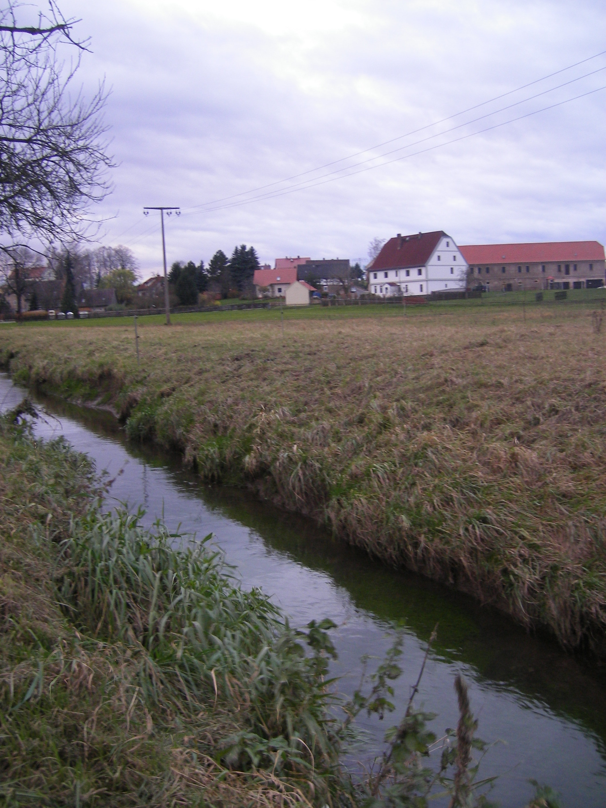 Brook “Blaue Flut” in Kosma near Altenburg/Thuringia (Germany)